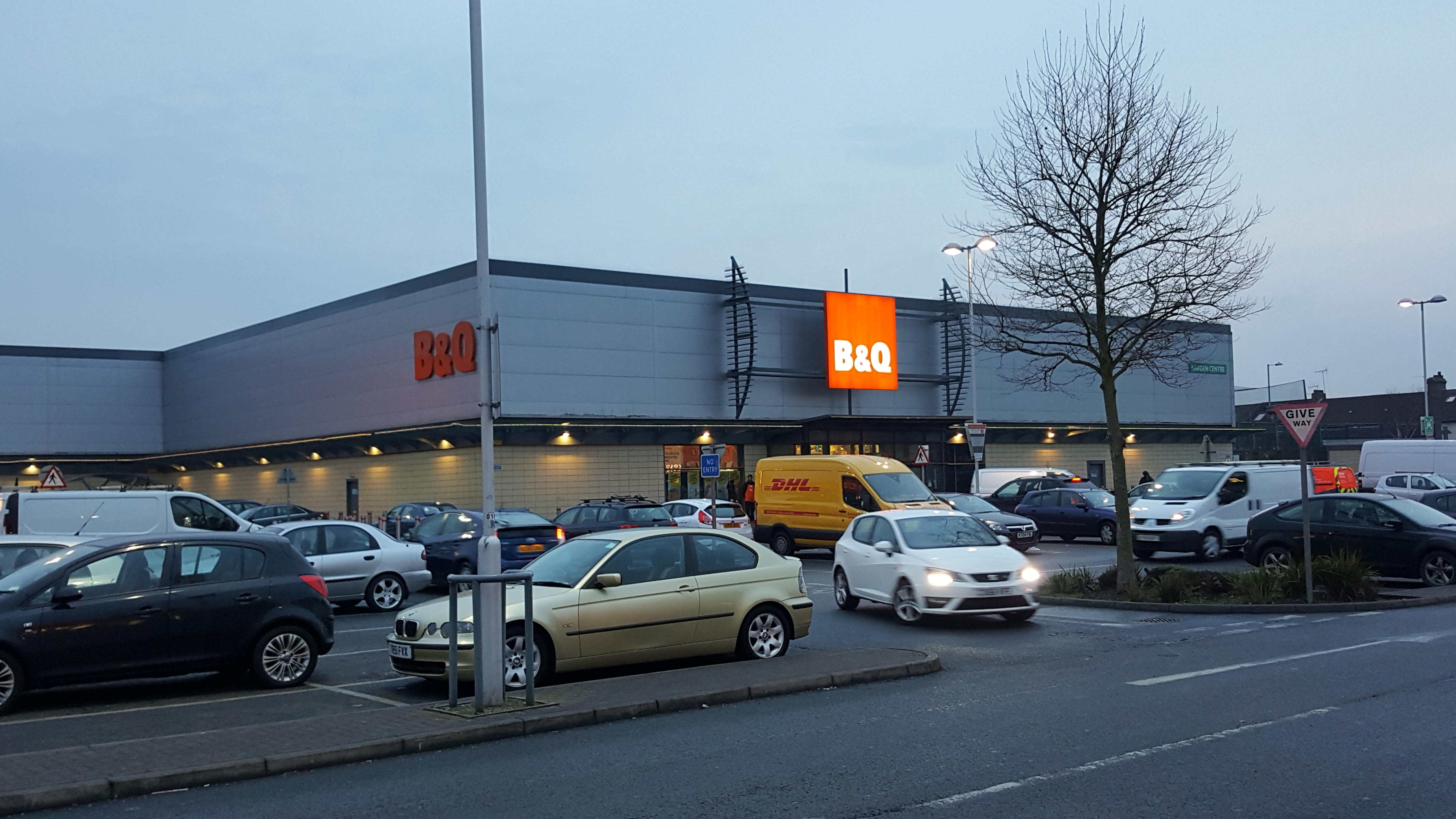 Tottenham Hale Retail Park, a large retail development on the site of the former Gestetner duplicator factory in Tottenham Hale, London